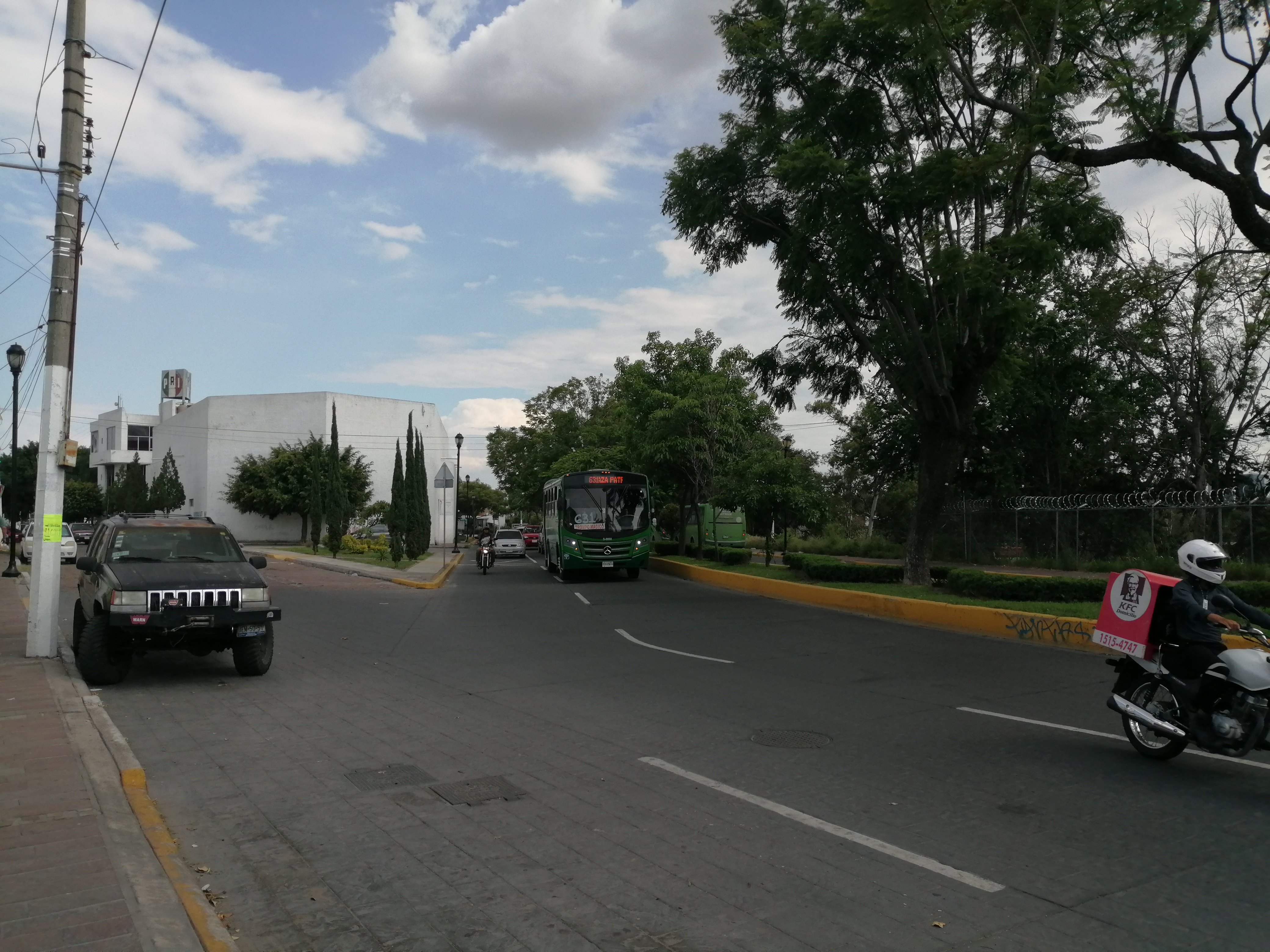 av hidalgo in zapopan